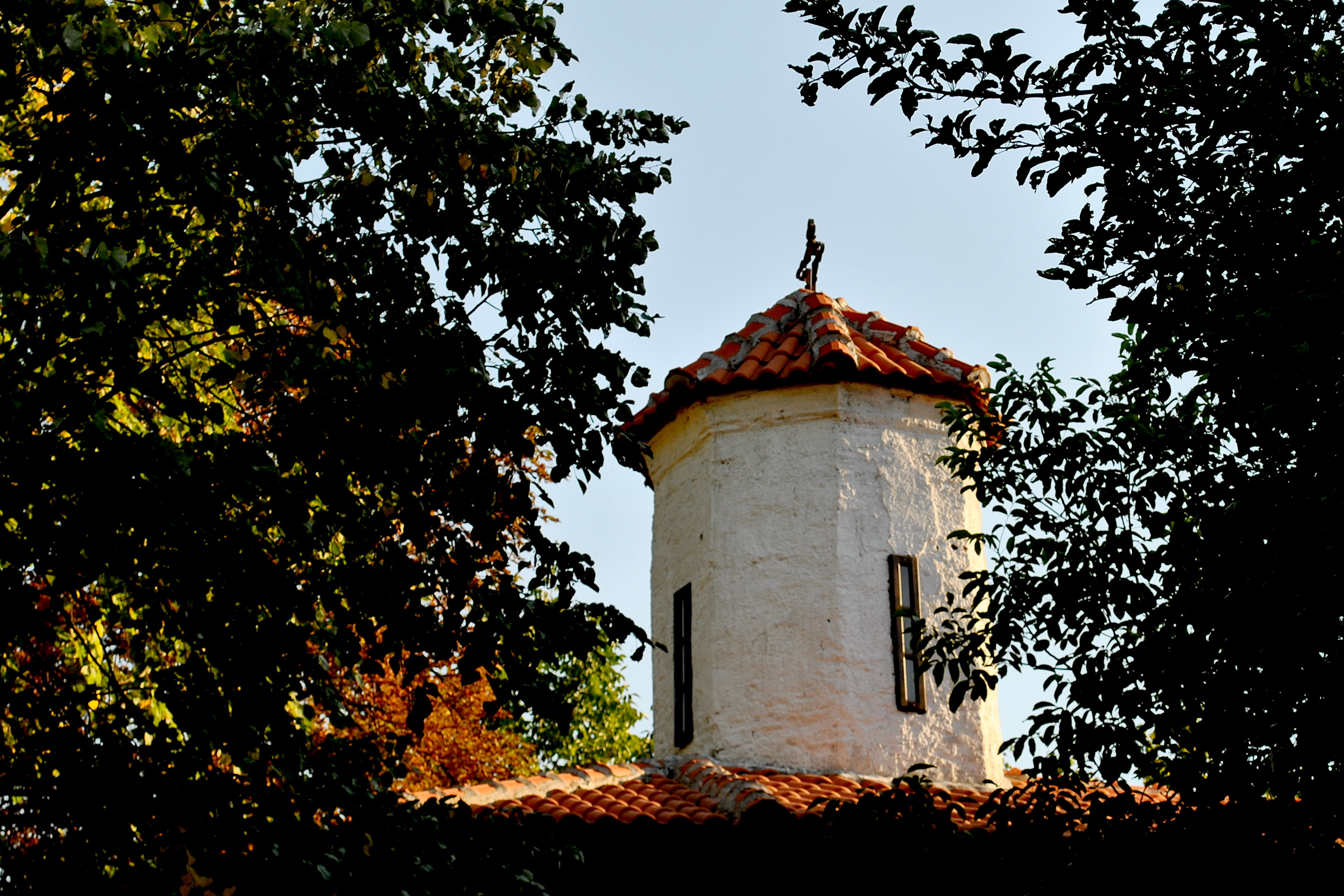 СК 665